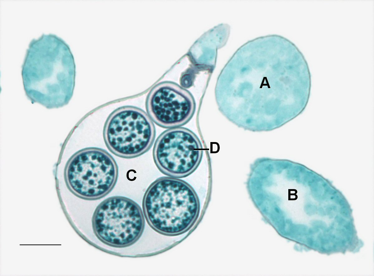 Light microscopy of Saprolegnia showing the different stages of development for the oogonium of Saprolegnia. Showing a young, immature, and mature oogonium. The mature oogonium has eggs inside. A=Immature oogonium, B= Developing oogonium, C=Oogonium, D=Egg.Scale bar = 0.01mm.